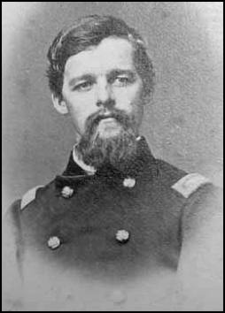 photo of Charles Carroll Walcutt